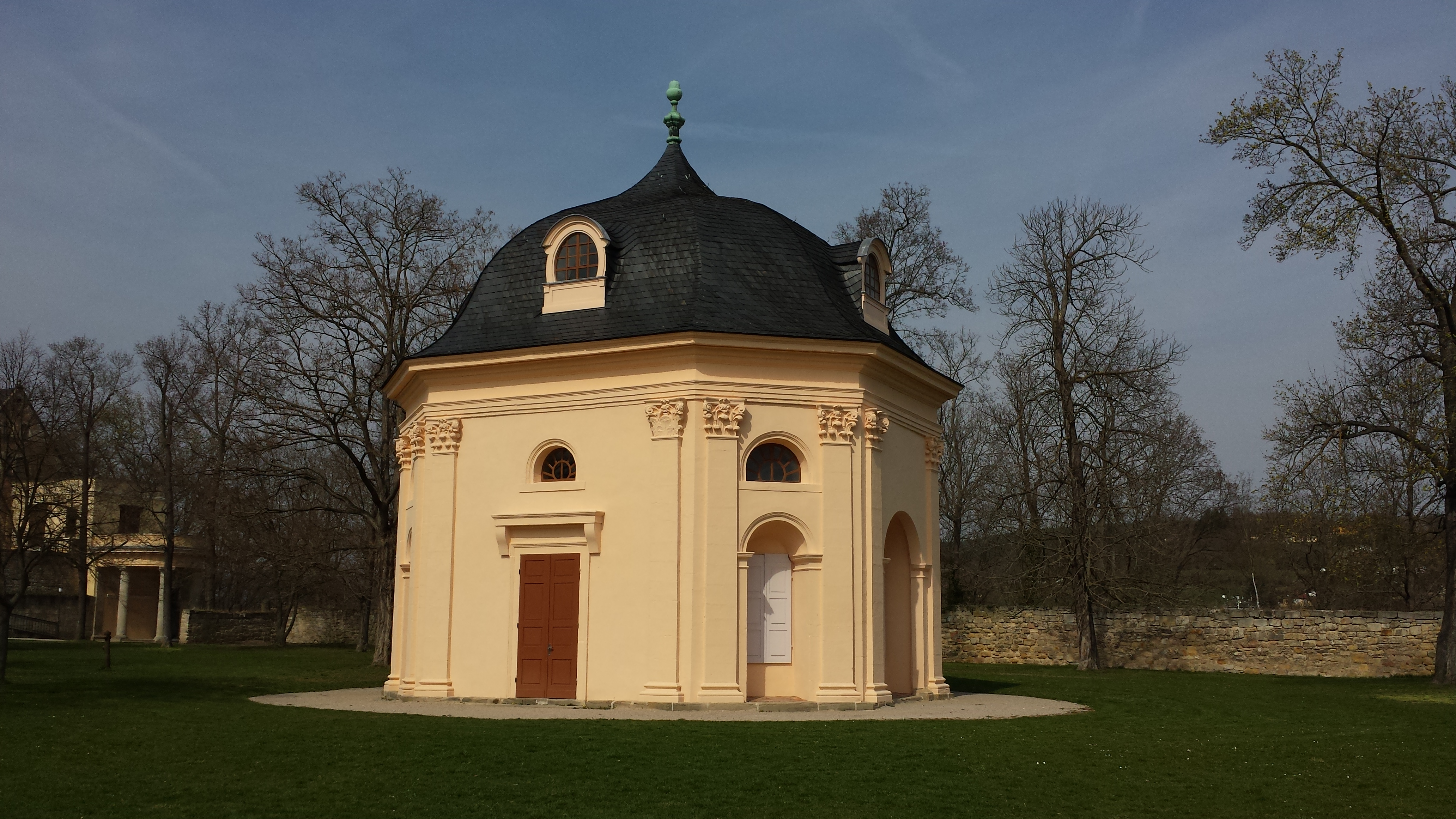 Schallhaus in Rudolstadt